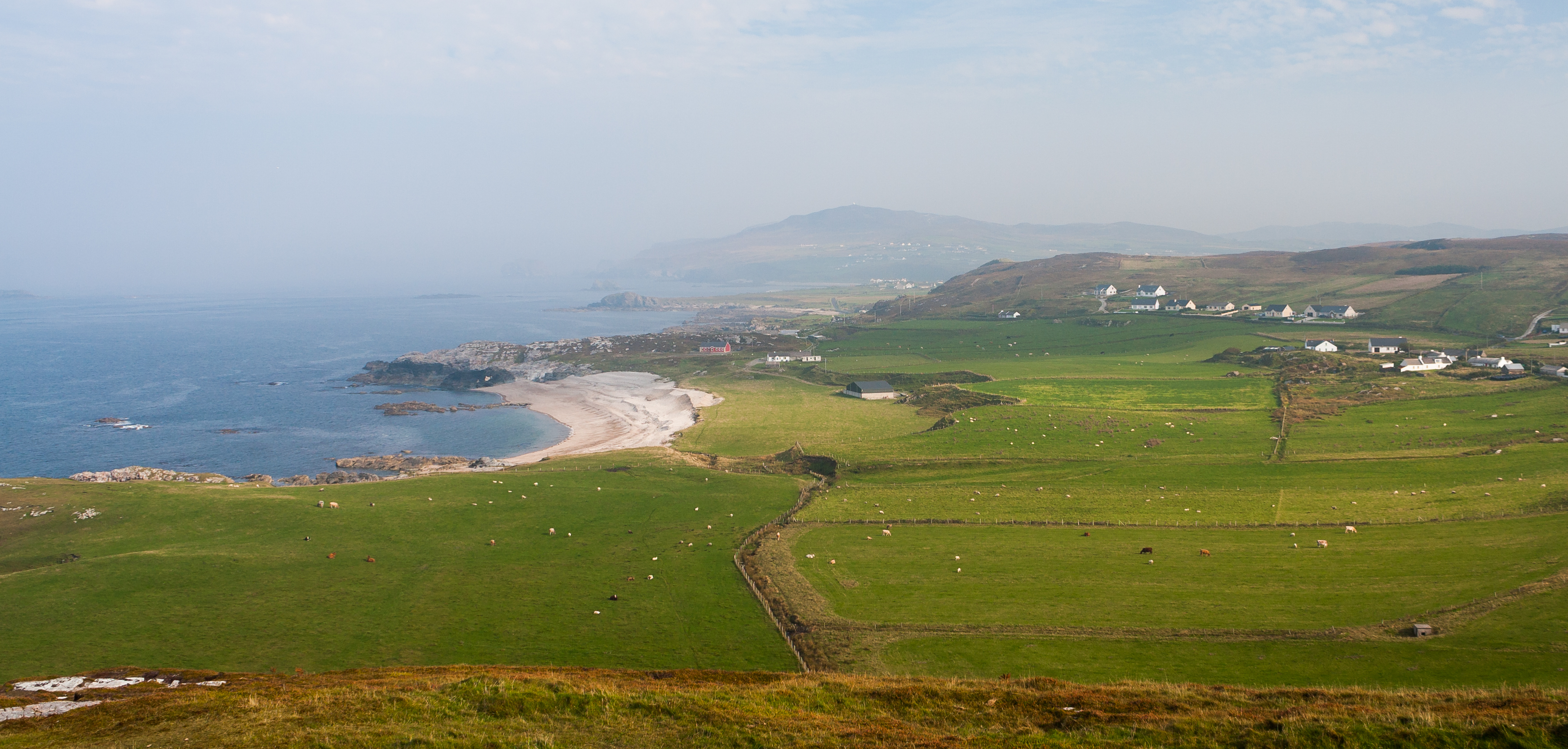 Raised beach of Ballyhillin at Malin Head, Inishowen, County Donegal. From the information panel at Malin Head: As the ice sheets melted 15,000 years ago, the land became lighter. Eventually it rose 100 feet above the former sea level – a process called isostatic rebound. This created the raised beaches at Ballyhillin. [..] Four levels of shoreline can be seen at Ballyhillin.